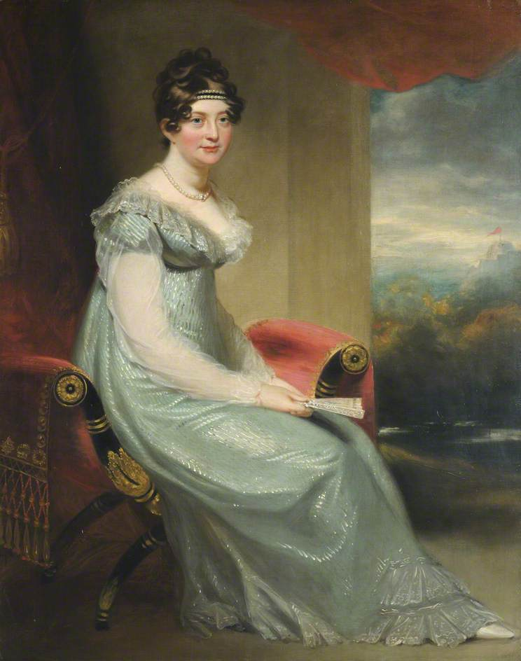 Portrait of Princess Mary, Duchess of Gloucester and Edinburgh (1776-1857)